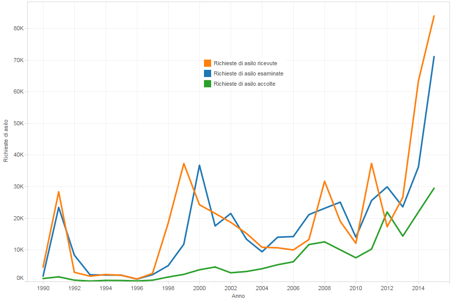 Asylum applications in Italy, 1990-2015. In orange, asylum applications received; in blue, decisions on asylum applications; in green, positive decisions (granting refugee status or other form of international protection).